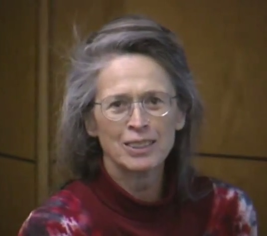 American computer scientist Carolyn Talcott. Screenshot from the CISR video library ( Sylvan Pinsky introduces Carolyn Talcott (SRI) Topic: The Maude Execution Environment February 9, 2004 The Protocol Exchange, at the Naval Postgraduate School ( Published on Aug 9, 2012